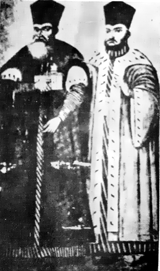 Constantin Cantemir & his elder son, Antioh Cantemir